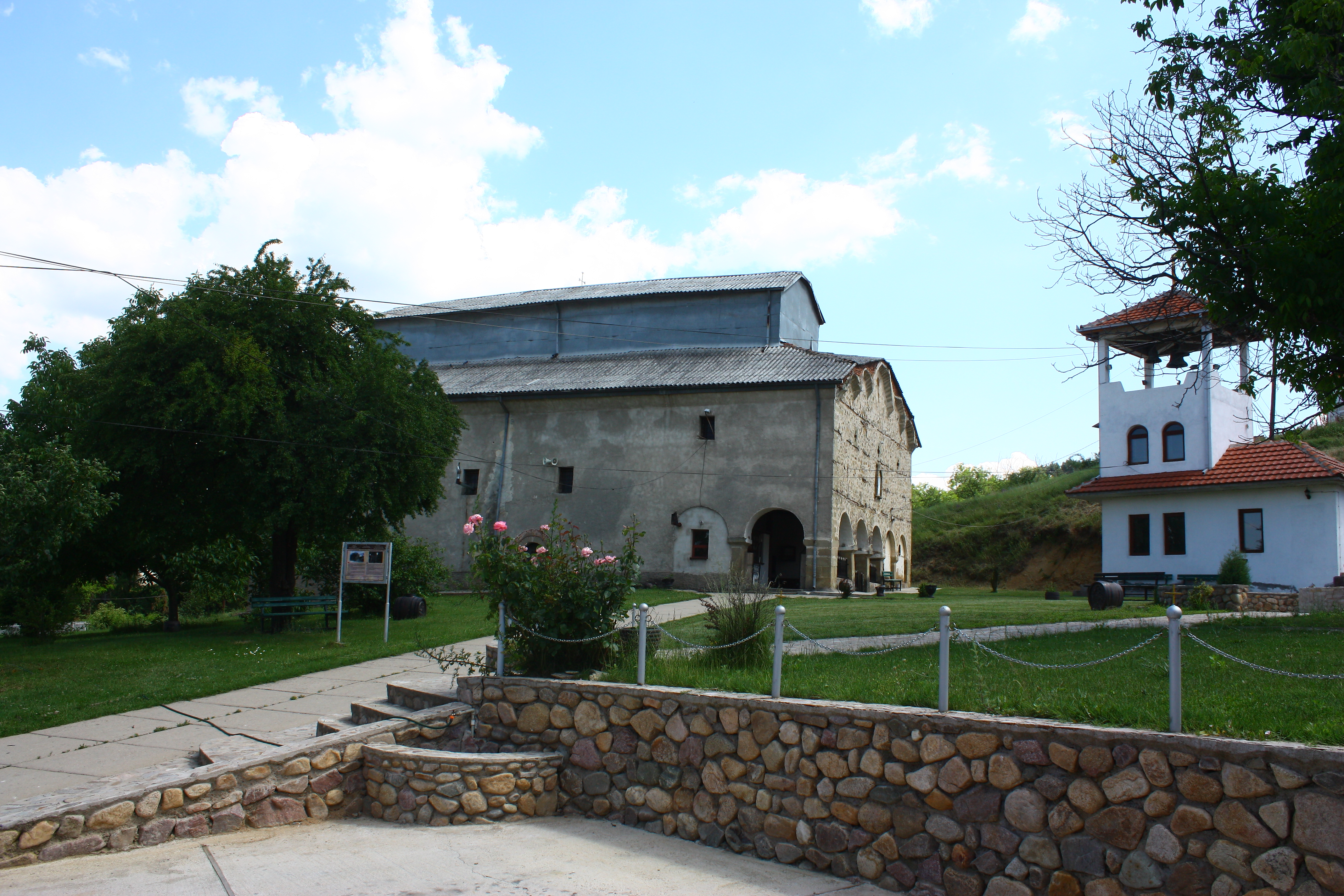 Dormition of the Theotokos Church in Delčevo, Macedonia